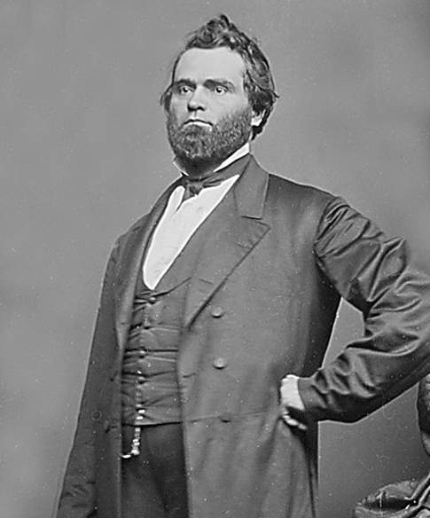 Bradley F. Granger (Michigan Congressman)